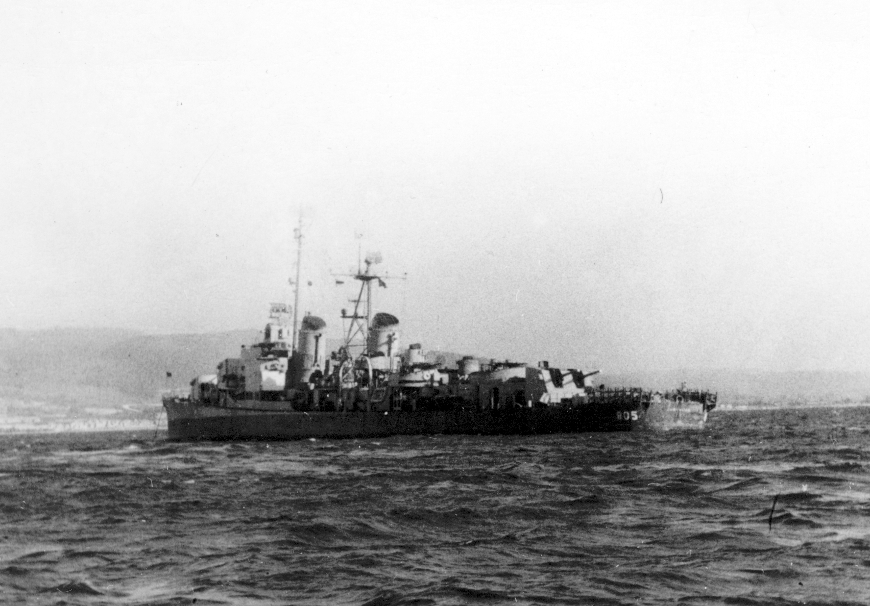 The U.S. Navy destroyer USS Chevalier (DD-805) anchored off Saipan in the spring of 1946.